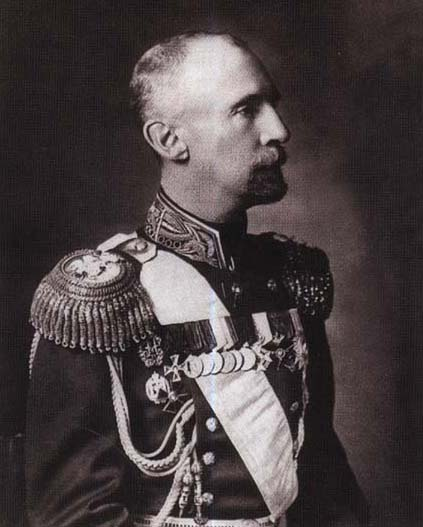 Grand Duke Dimitri Konstantinovich of Russia